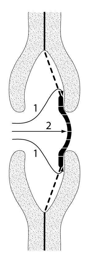 Paths of flow through an aspirated bordered pit